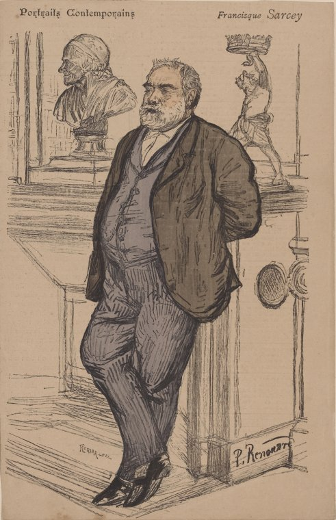 French writer and politician Francisque Sarcey in 1886